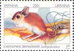 Stamps of Ukraine, 2001